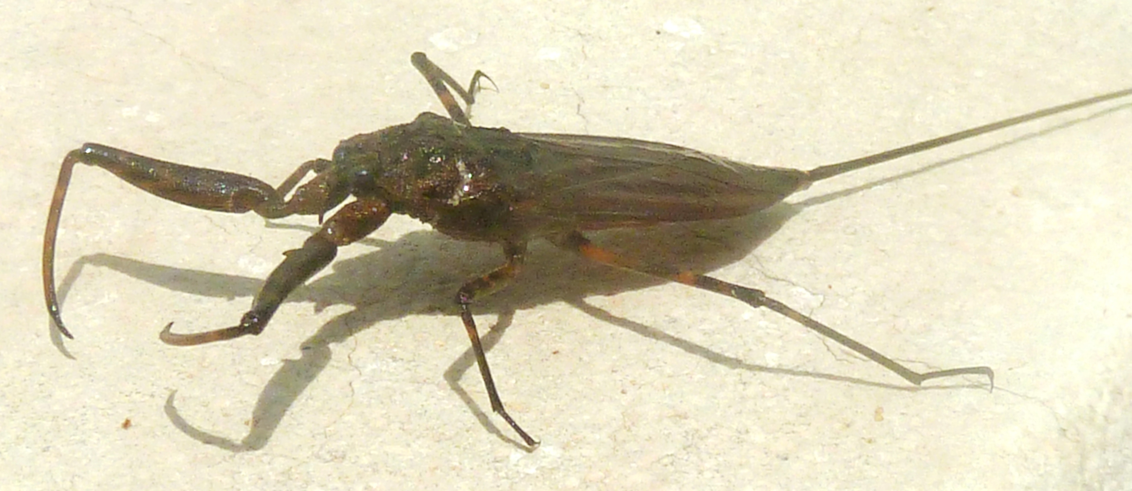 Laccotrephes water scorpion species, possibly L. brachialis, in Pretoria, South Africa. The siphon is about twice the body length.